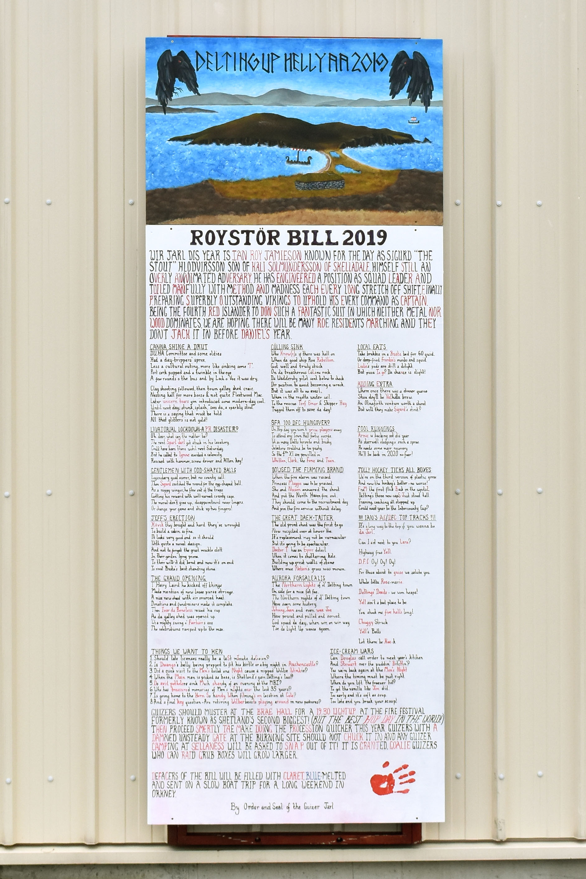 The Delting Up Helly Aa 2019 Bill on display at the Galley Shed. The Bill is put on display on Up Helly Aa day, usually poking fun at local people and events in the area. The authors of the Bill remain a closely guarded secret. The Bill Head, mounted above the Bill, is painted to the Jarl's specifications each year.